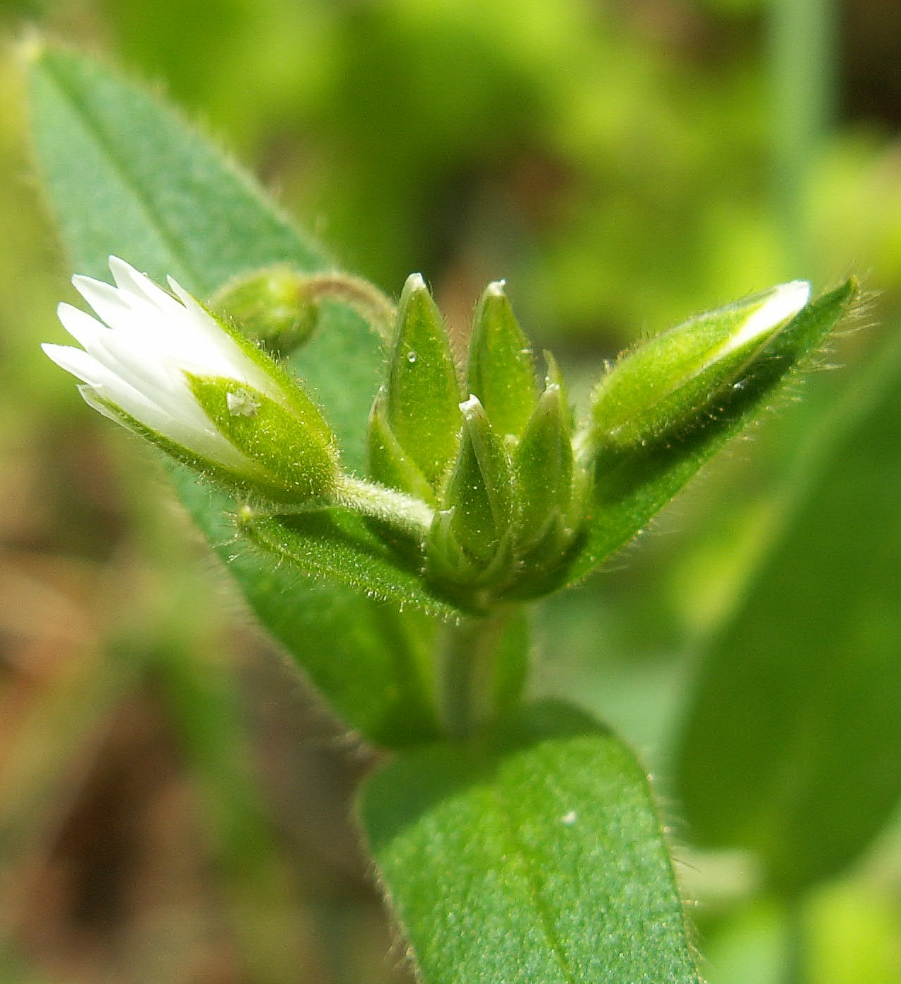 Cerastium macrocarpum, flowers. Beech Forest near Szczecin, NW Poland